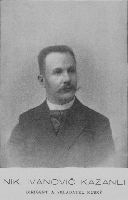 Portrait of Nikolai Ivanovich Kazanli (Russian: Николай Иванович Казанли 1869-1916), Russian composer.